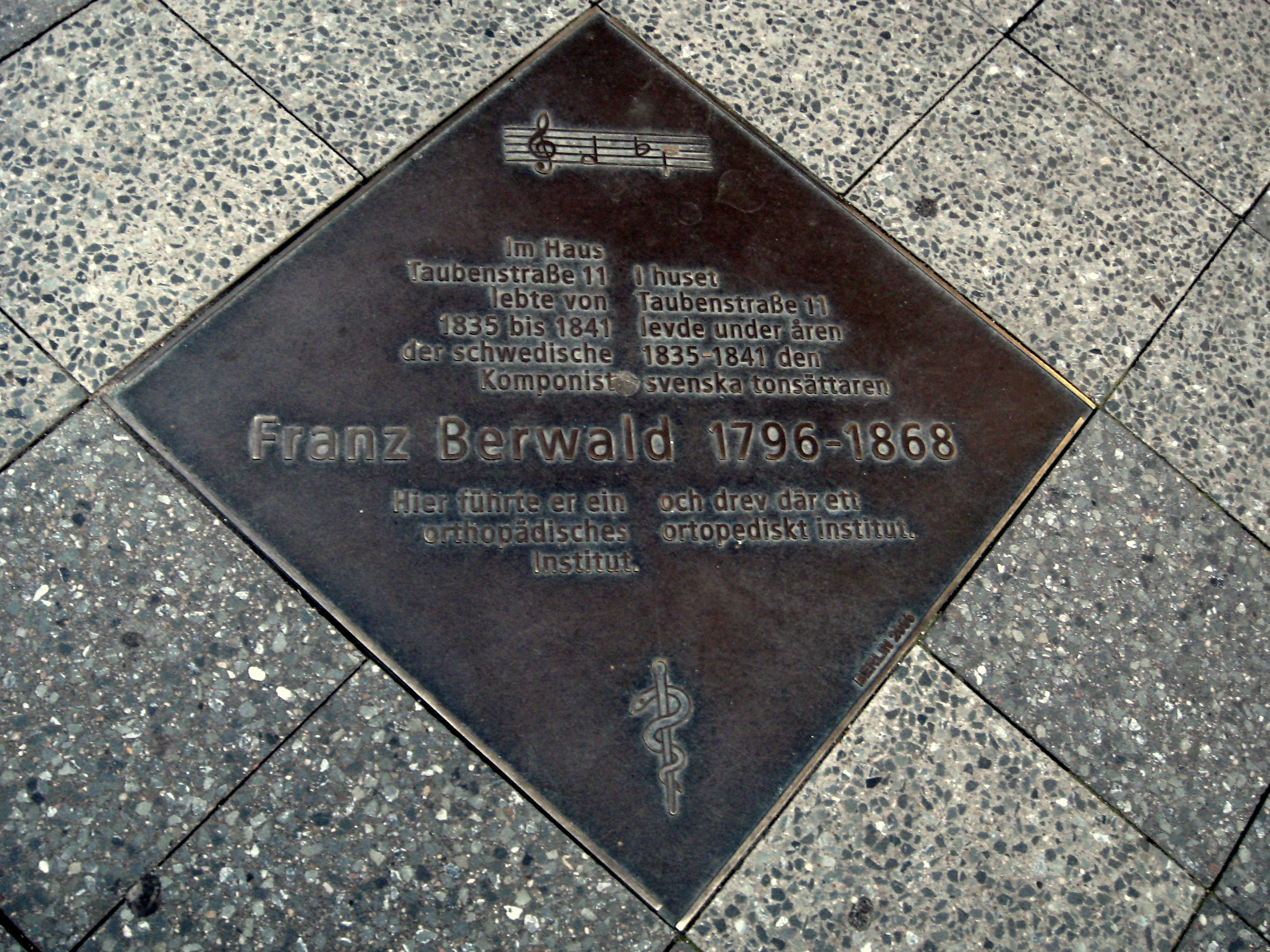 A pavement plate in Berlin commemorating Franz Berwald